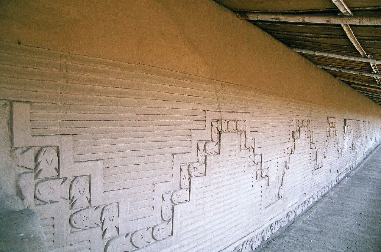 Fish carvings on a wall at Chan Chan (Peru)